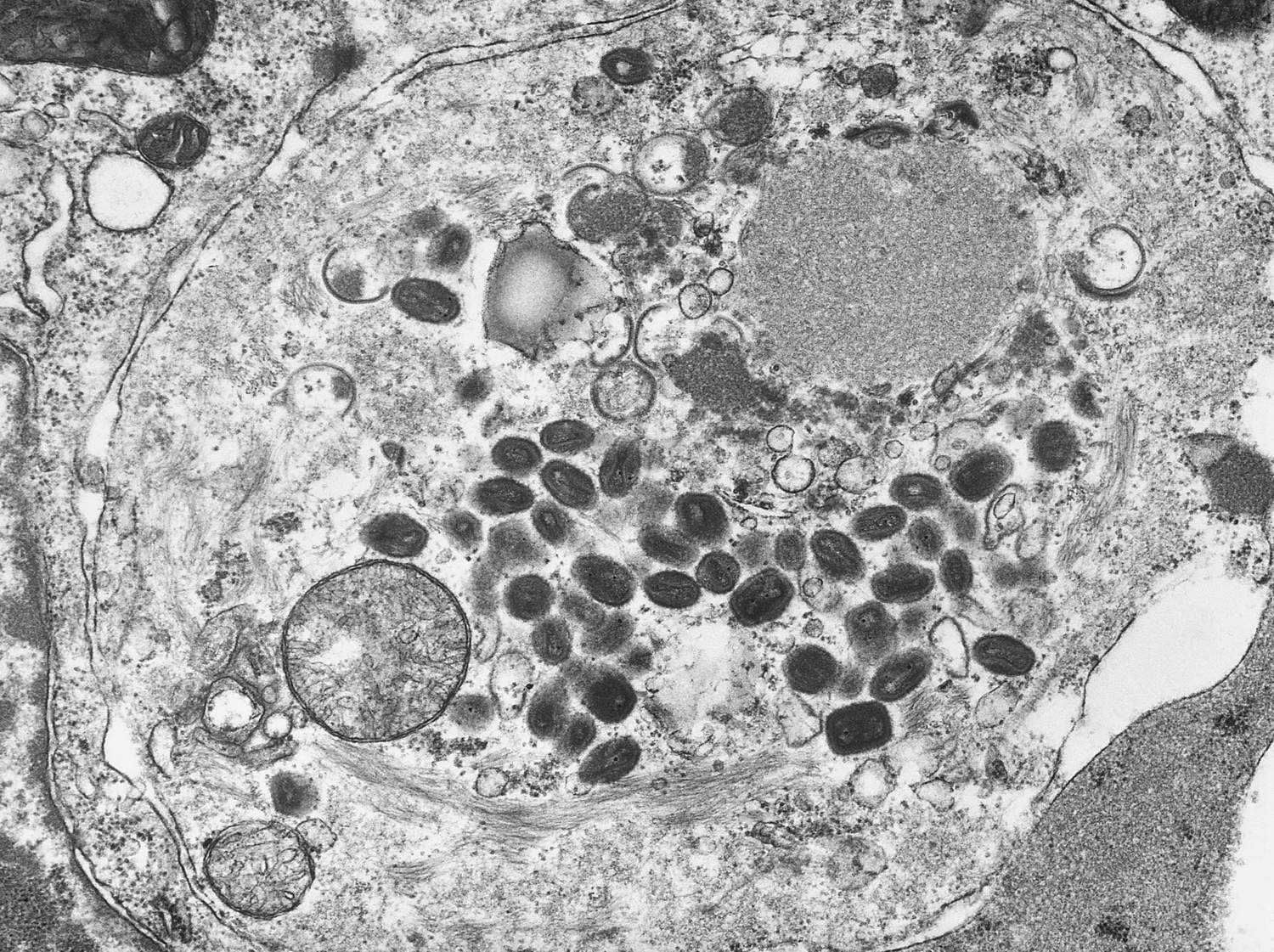 A transmission electron micrograph of a tissue section containing variola viruses. Smallpox is a serious, highly contagious, and sometimes fatal infectious disease. There is no specific treatment for smallpox disease, and the only prevention is vaccination.